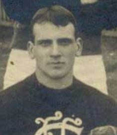 Photo of Jim Marchbank dated between 1909 and 1912